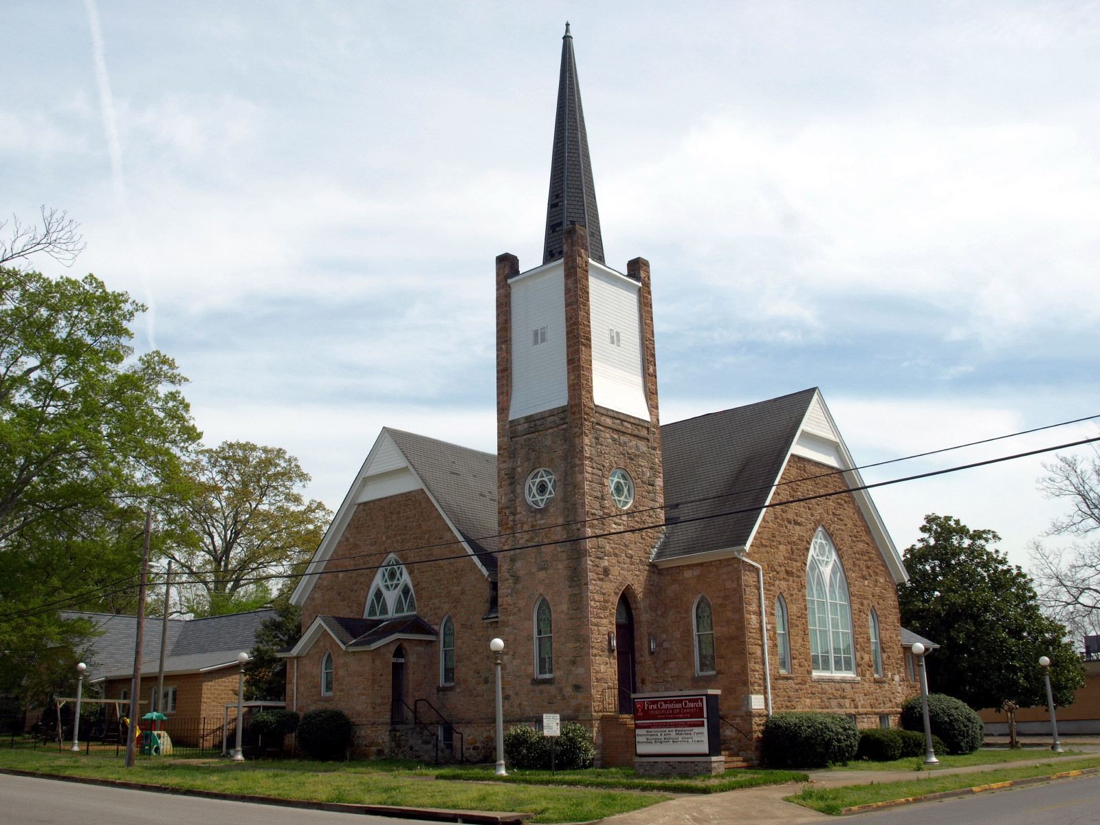 Saint Paul's Methodist Episcopal Church in Anniston, Alabama, listed on the National Register of Historic Places